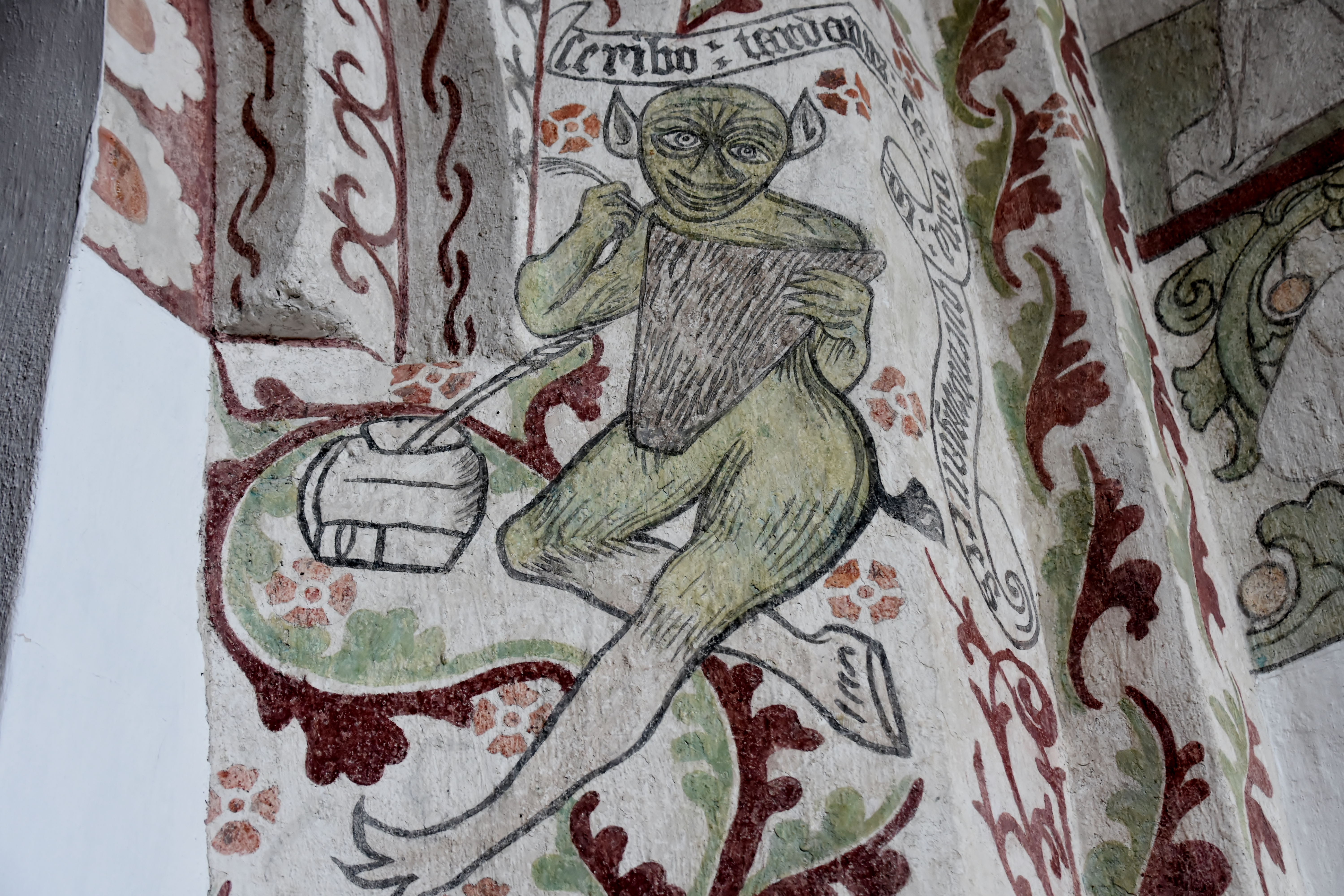 Frescoes from the early 1500s in St. Birgitta's Chapel, Roskilde Cathedral (1)